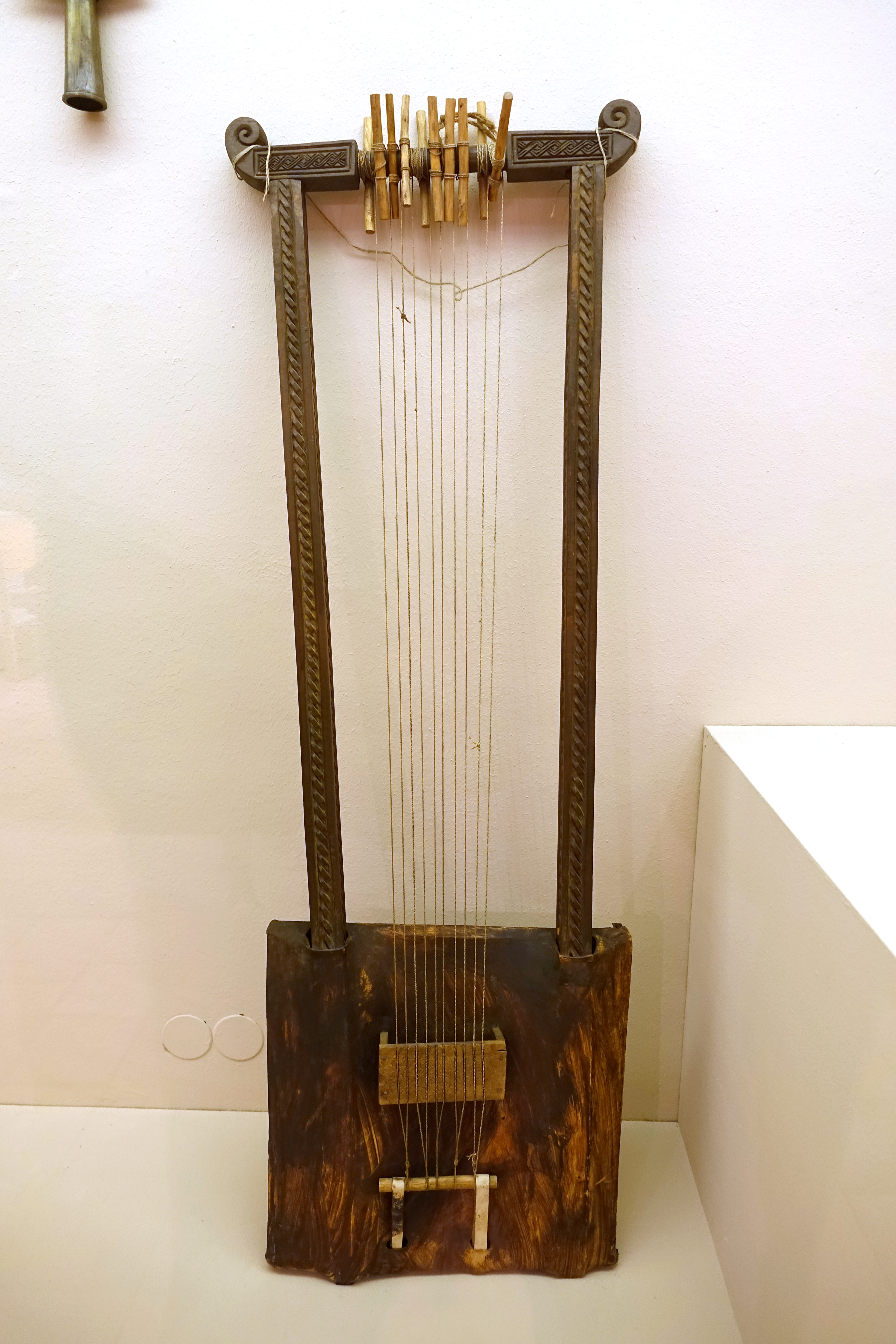 Exhibit in the Linden-Museum - Stuttgart, Germany.